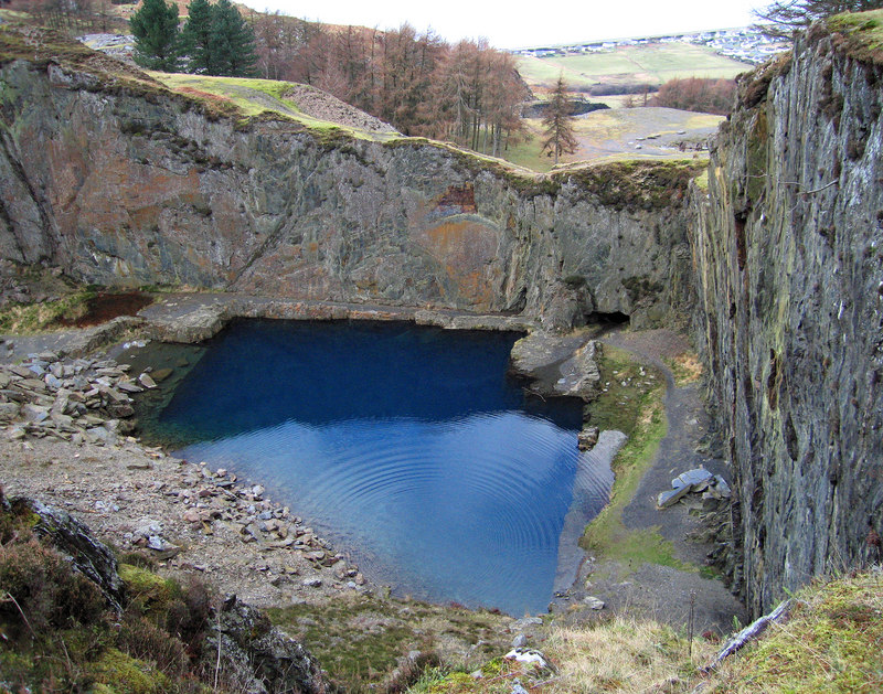 Ripples in the Blue Lake When I first saw this lake on Geograph I decided to take a look at it and see if it was blue, having now been there I can confirm that it really is blue and very deep! I have also tried to find out why it is blue, but so far I can't find the reason, if you know please add that info to this description. The best I found on the web was this If you search the above linked site's Photographs for "Golwen" there are more images of this quarry.